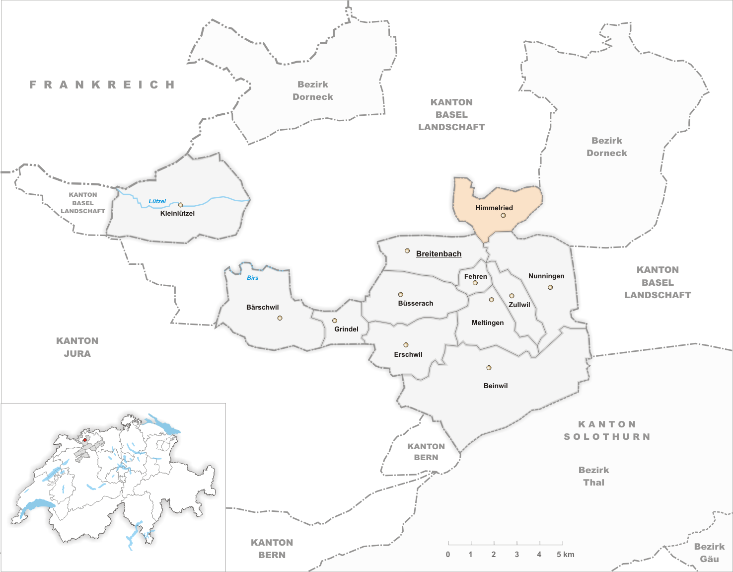 Municipality Himmelried